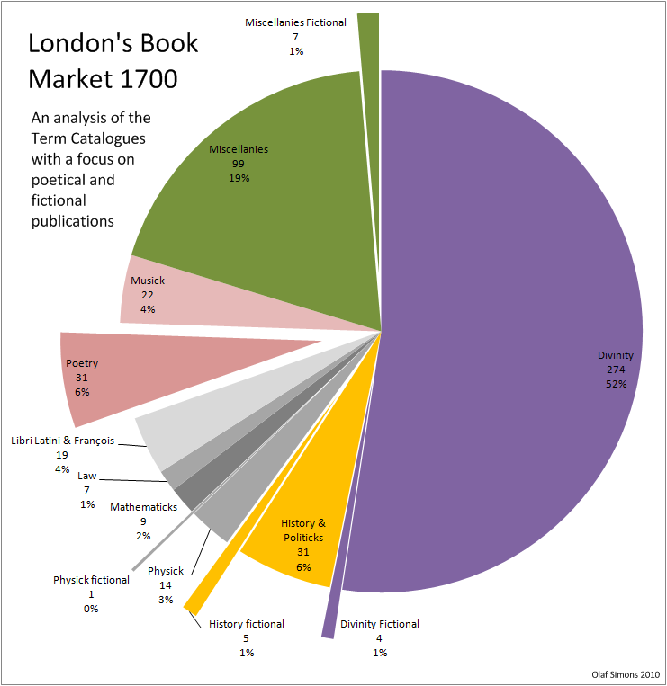 London's book market 1700, distribution of titles according to Term Catalogue data with a special focus on the poetical and fictional production